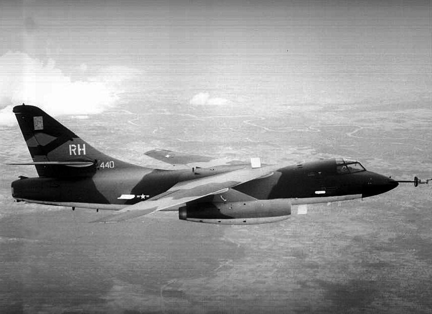 EB-66 from the 41st Tactical Electronic Warfare Squadron.